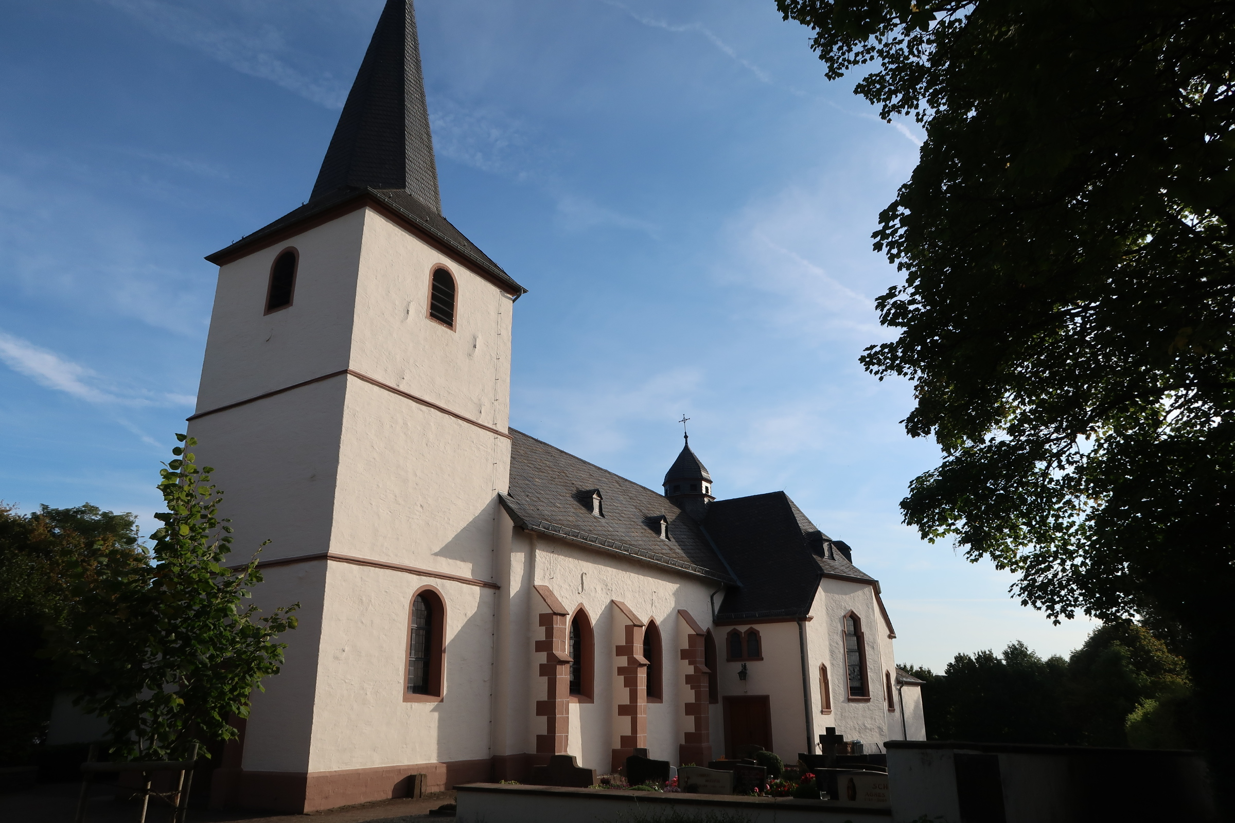 Late gotic church Sanct Maximin in Rommersheim, Germany